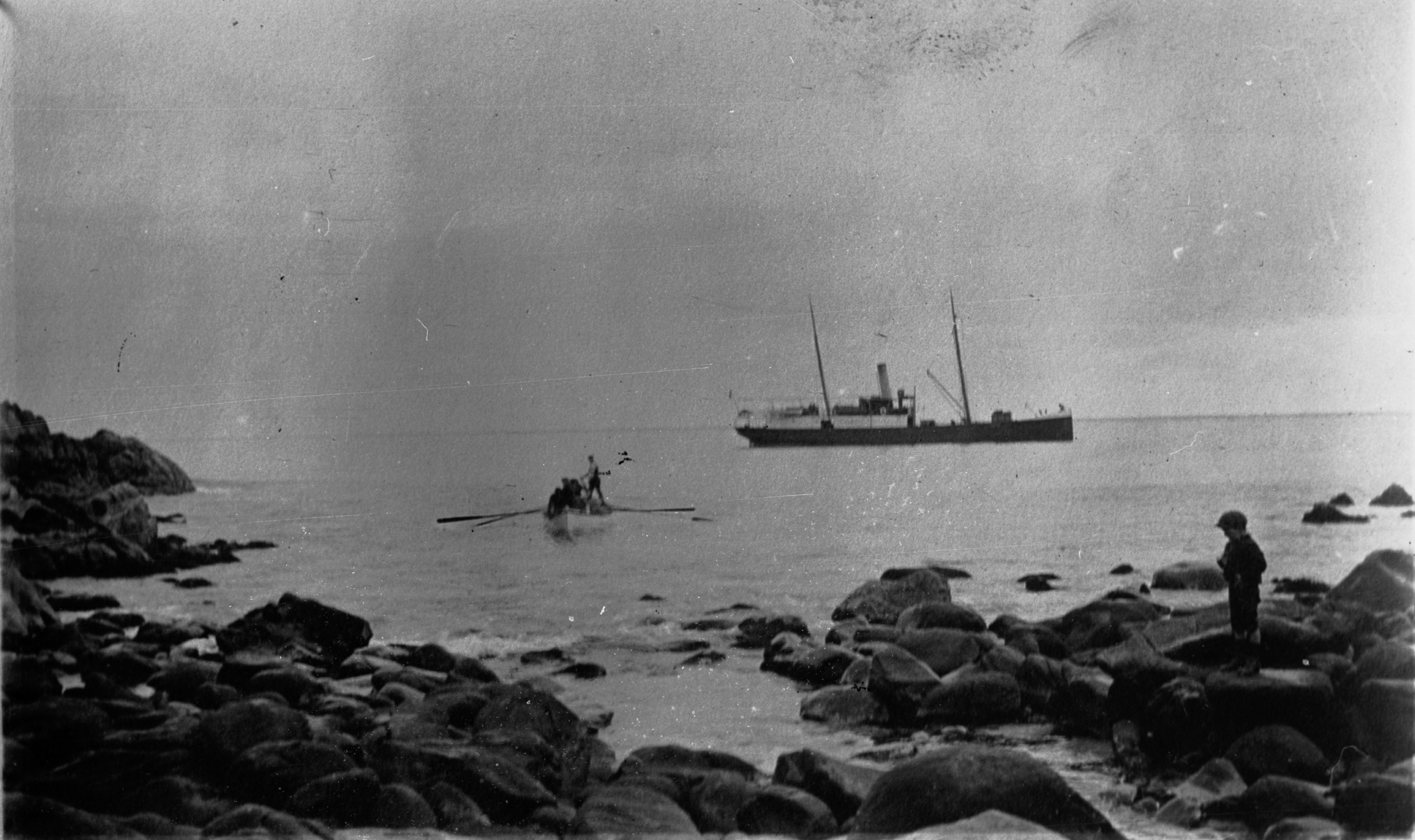 Microfiche states location unknown. - See "A Remarkable Point" (Corny Point), pp. 12 & 14. Not found in index. (G Brooks)